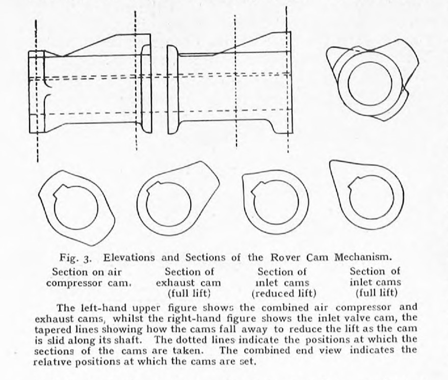 1904 Rover 8 cams